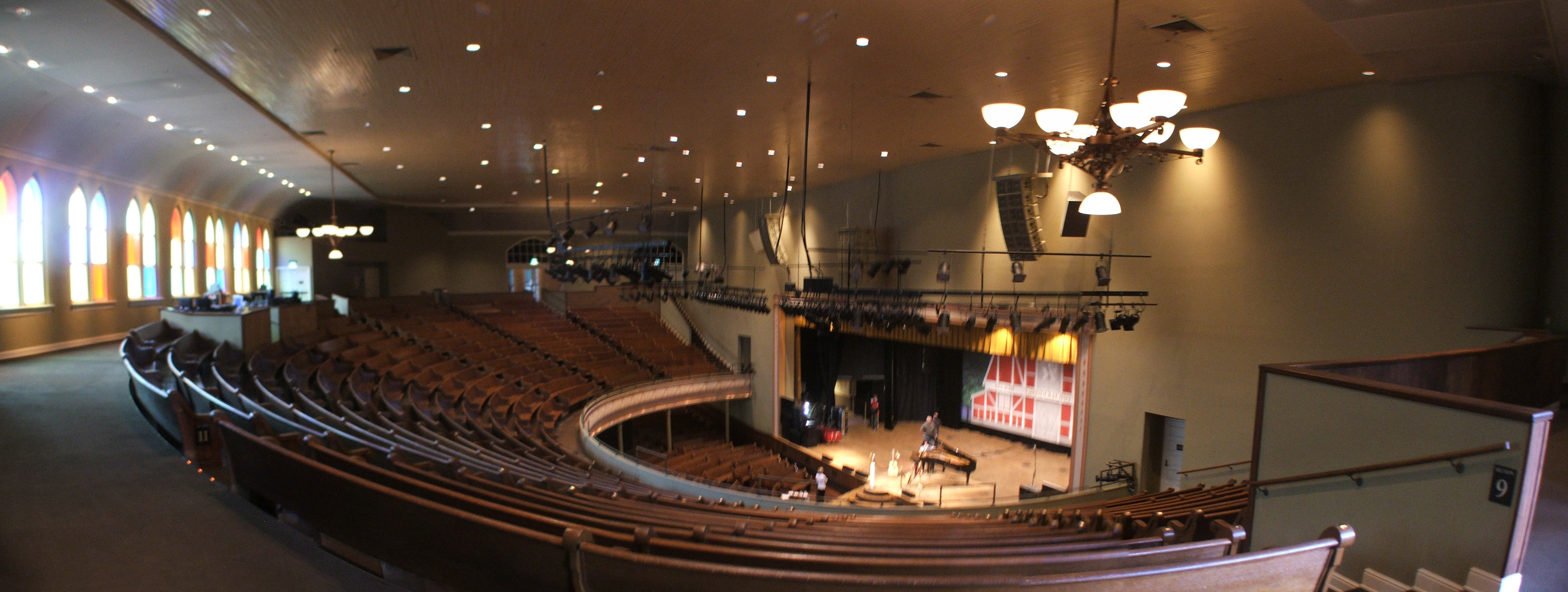 Panoramic view of the Ryman Auditorium from the upper balcony.